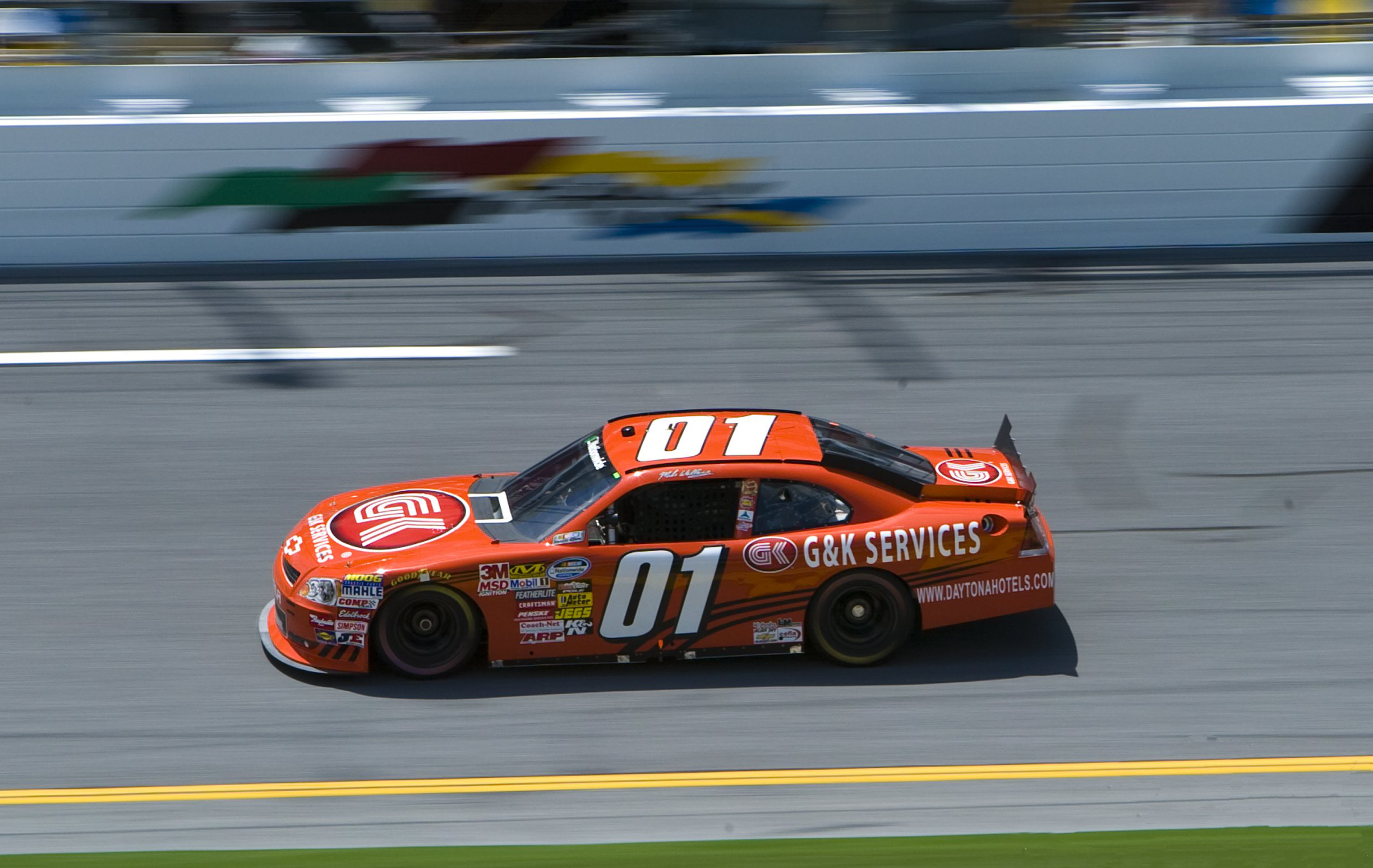 This photo was taken during practice before the Nationwide July race.